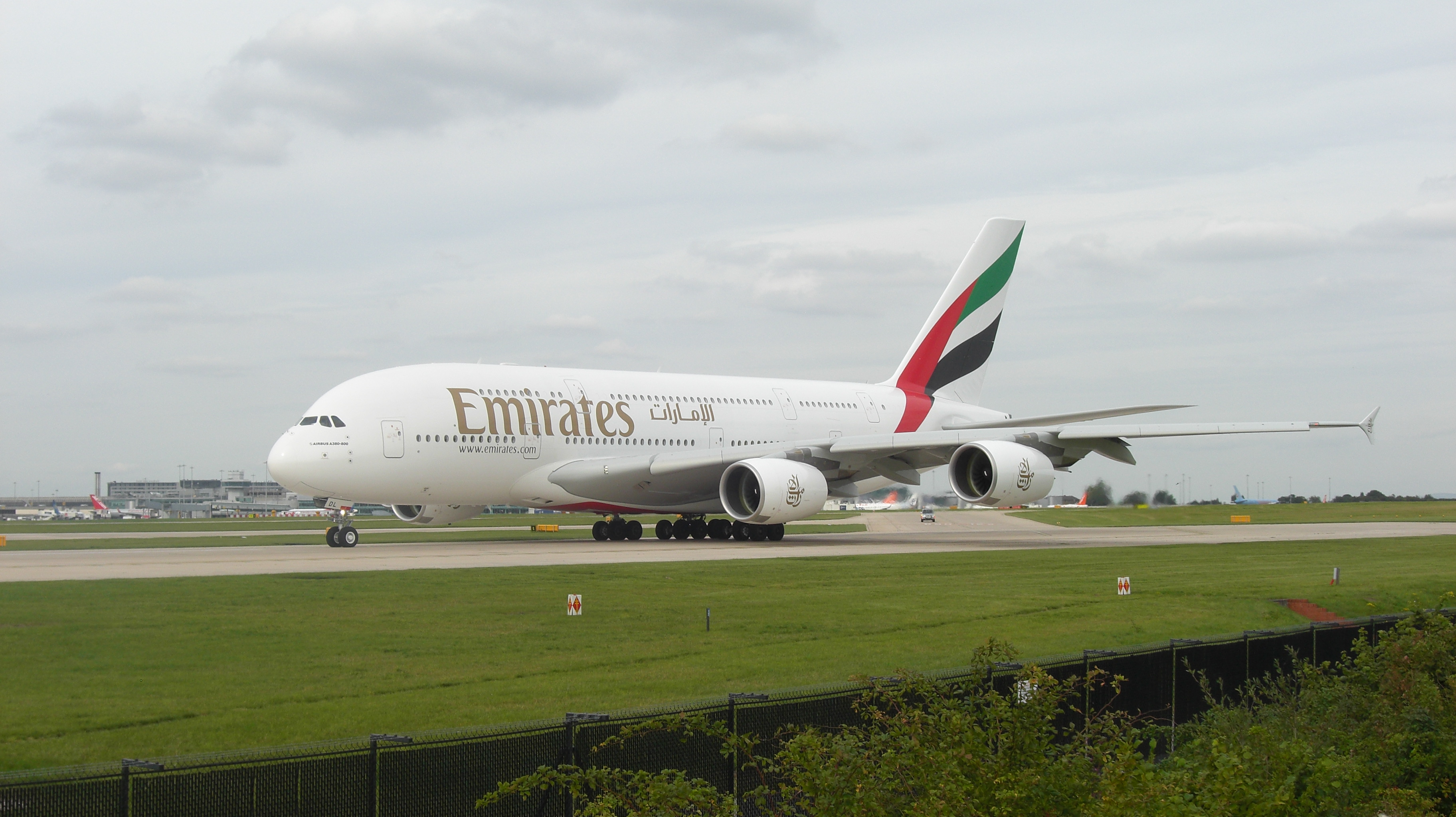 my Nikon is in for a clean of the sensor so i borrowed my dads pocket camera and i'm pretty happy with what i got with it(although a professional can use any camera!!!!). this is the 3rd day i have seen the A380 but the 1st day i have seen it take off. taken at the beginning of the 2nd runway at manchester airport